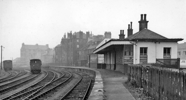 Bo'ness Station (remains). View westward, towards Manuel, Causewayend and Slamannan; ex-NBR (Slamannan Rly. section) terminus of branch from Polmont and from Causewayend. Closed to passengers 7/5/56, goods 7/6/65. The branch is now operated (from a 'new' Bo'ness station ¼-mile away) by the Scottish Railway Preservation Society as the Bo'ness & Kinneil Railway. (It seemed in 1961 to be remarkably intact 4½ years after closure).